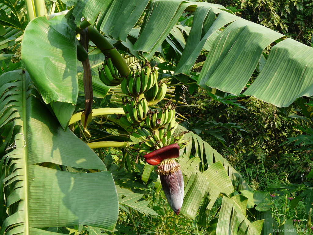 commonly known as: banana, fig of paradise, plantain •